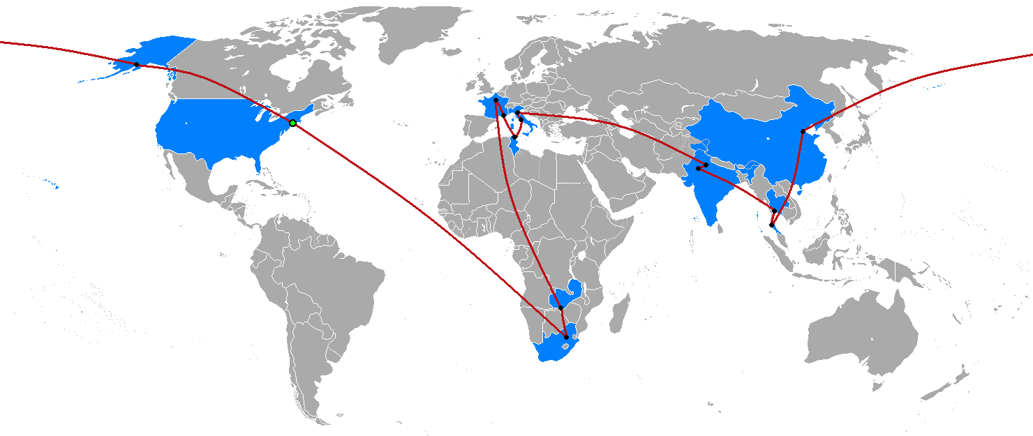 The Route Map of The Amazing Race 1, recreated with black dot leg stops